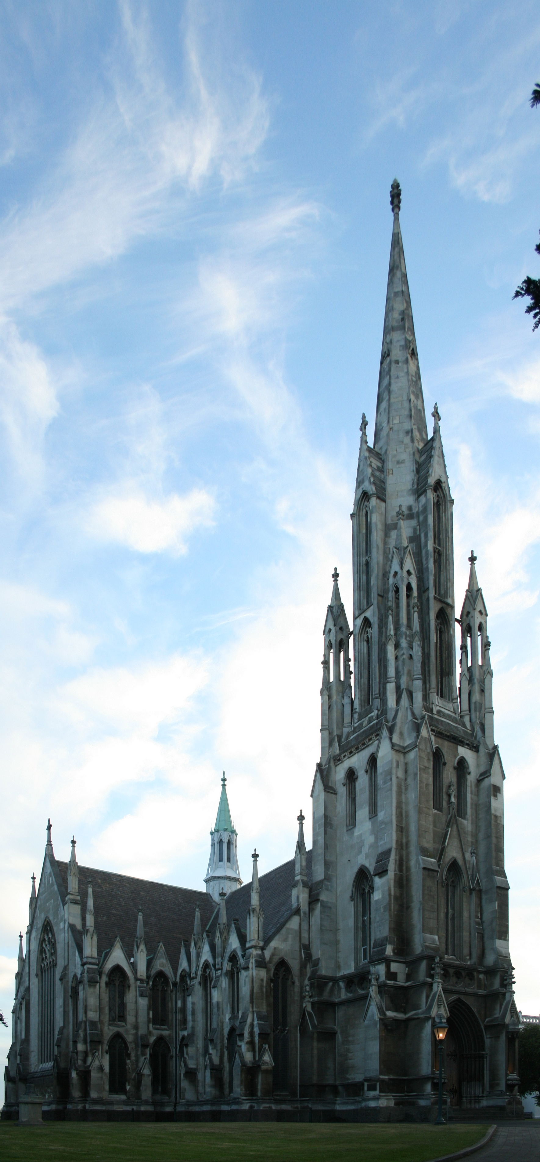 Dunedin, New Zealand